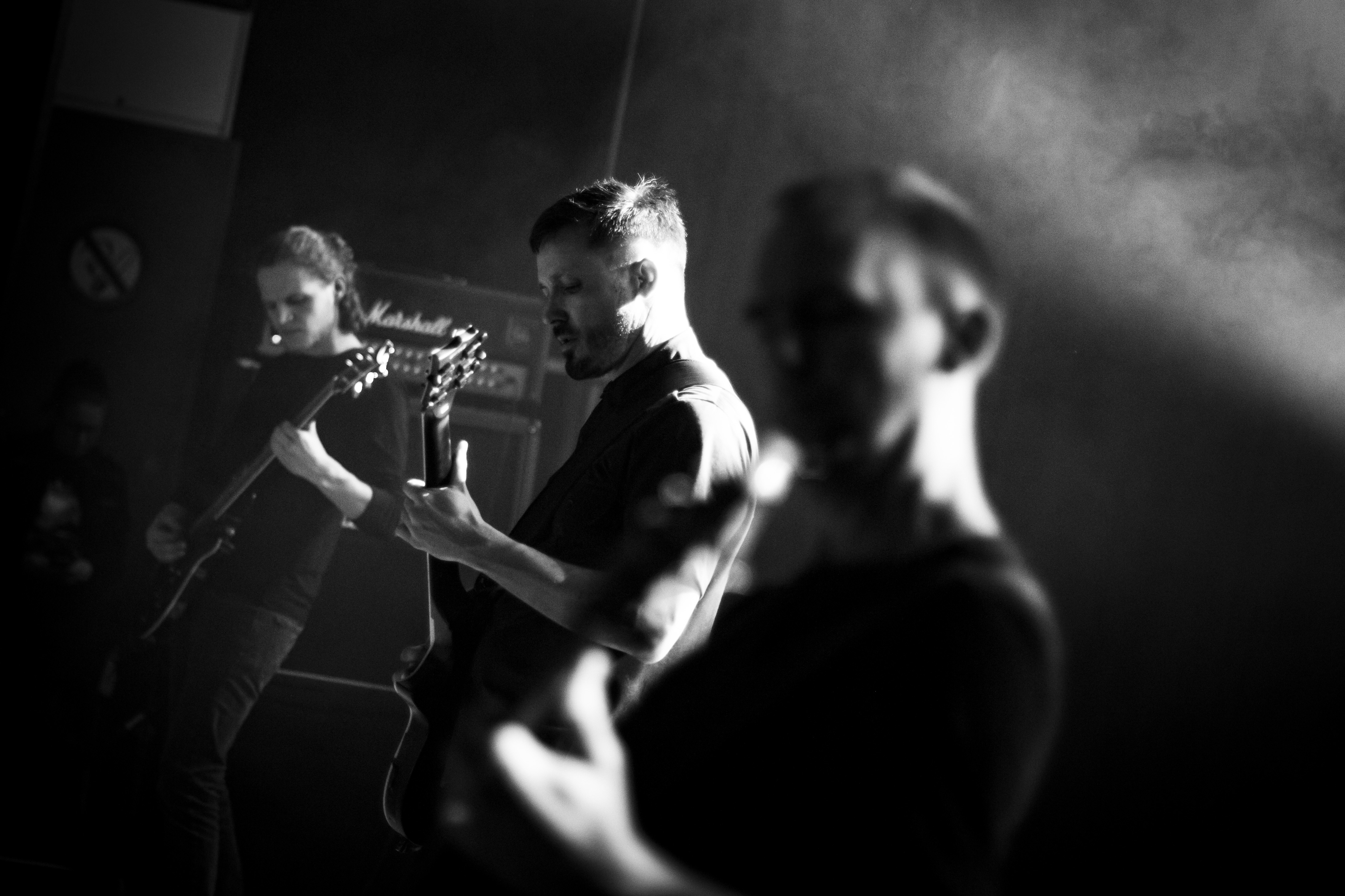 Norwegian metal band Drottnar in concert for Swiss festival "Elements of Rock" of 2019.